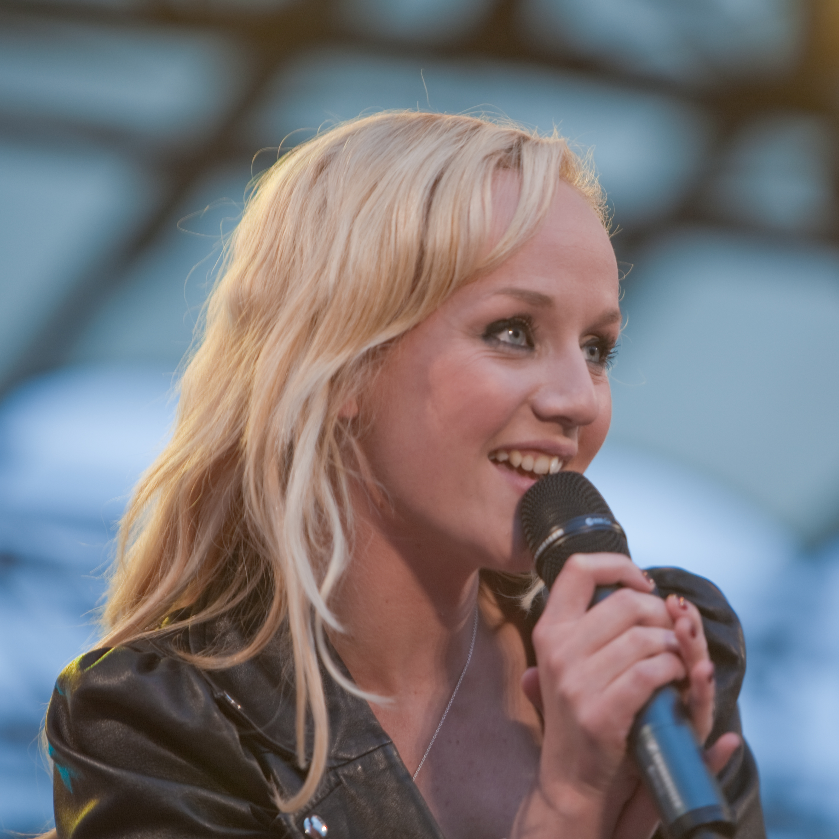 Anna Bergendahl at LOVE Stockholm 2010